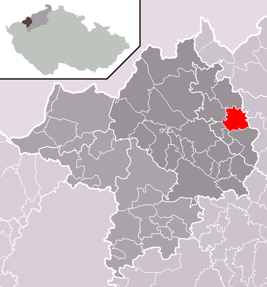 Location of Vrskmaň municipality within Chomutov District and administrative area of Chomutov as a Municipality with Extended Competence.